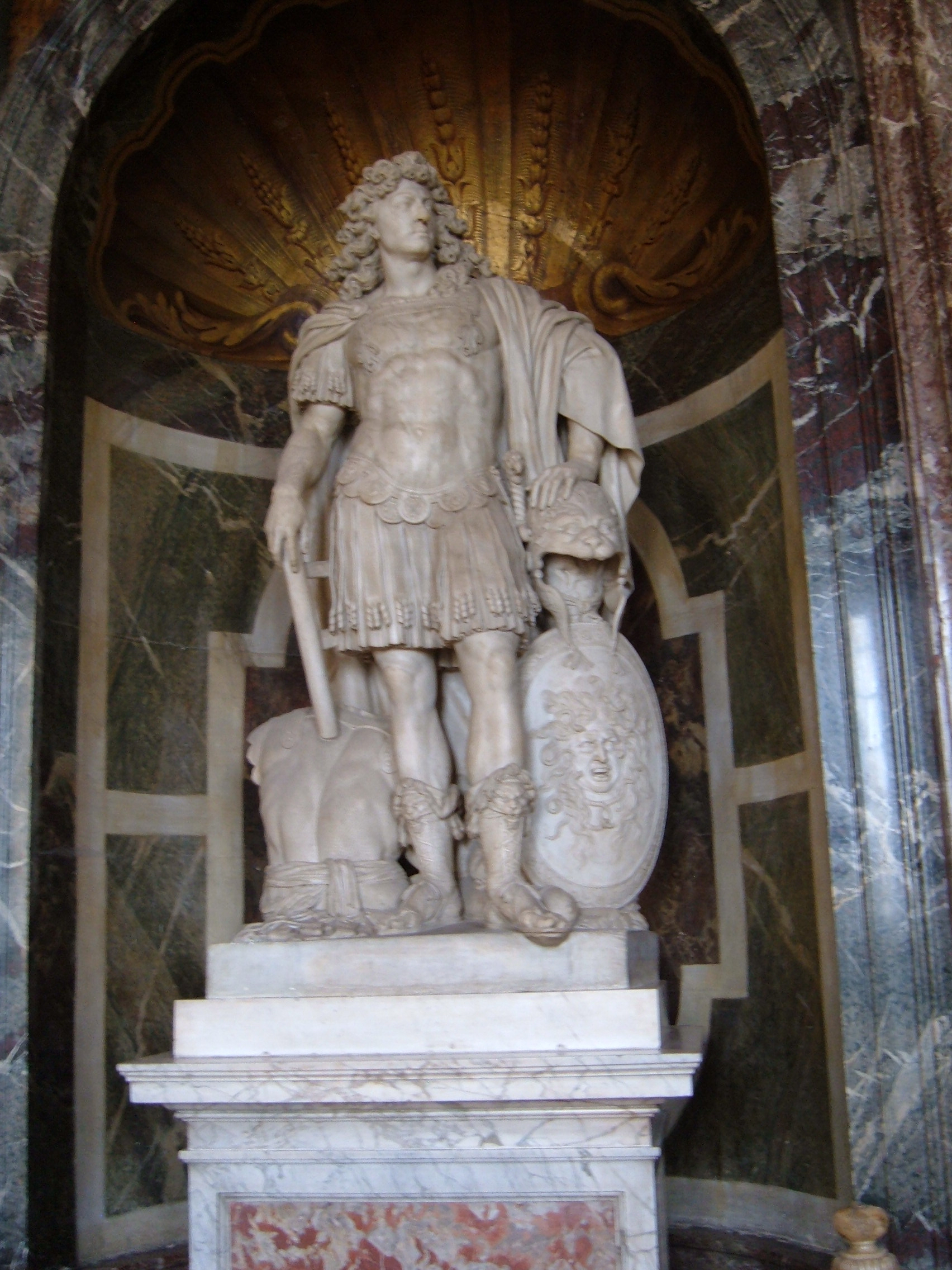 A statue of Louis XIV by Jean Varin in the Salon de Vénus at the Château de Versailles, France.